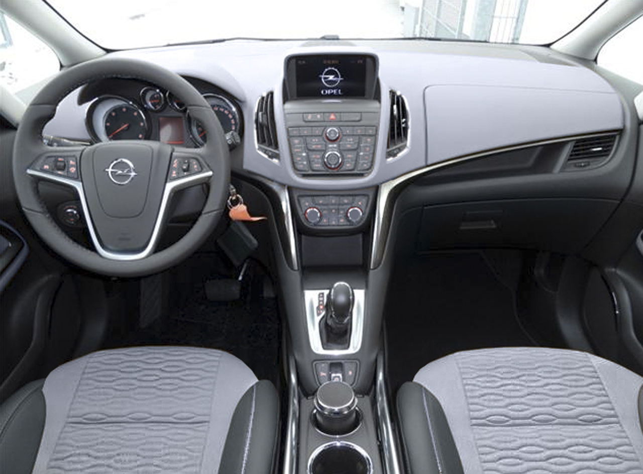 2.0 CDTI